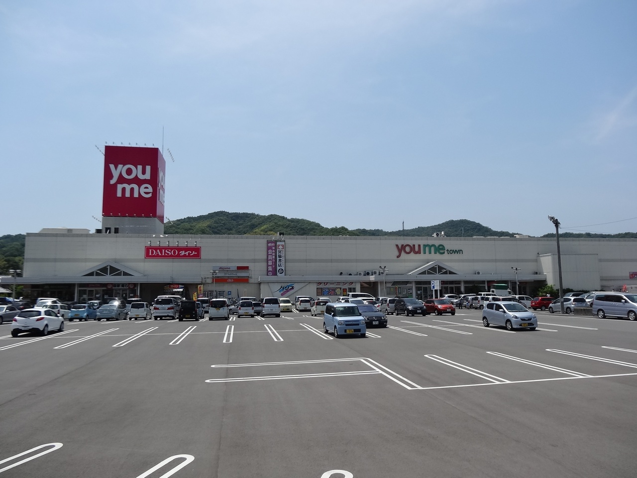 You me Town Etajima Shopping Center (Etajima City, Hiroshima Prefecture, Japan)